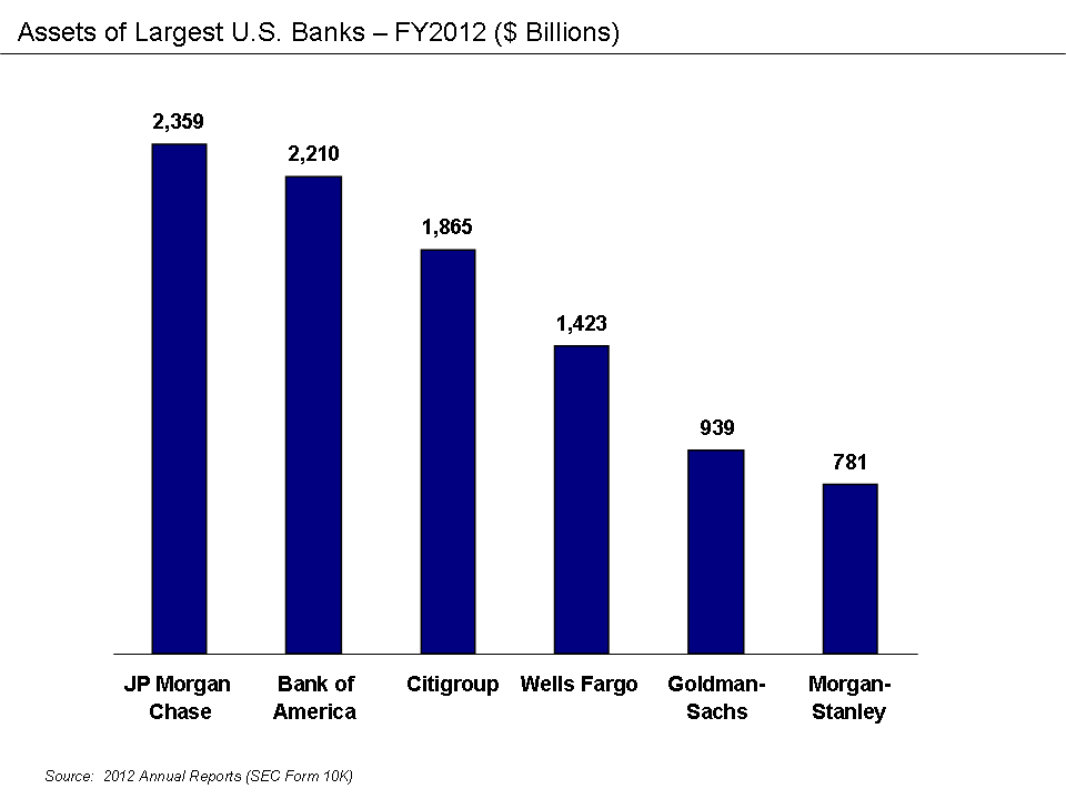 Bar graph showing largest U.S. banks by assets as of year-end FY2012.